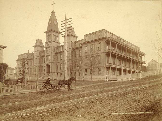 Caption on image: "Providence Hospital, Seattle" Subjects (LCTGM): Hospitals--Washington (State)--Seattle; Carriages & coaches--Washington (State)--Seattle; Railroad tracks--Washington (State)--Seattle; Streets--Washington (State)--Seattle Subjects (LCSH): Providence Hospital (Seattle, Wash.); Fifth Avenue (Seattle, Wash.); Madison Street (Seattle, Wash.)